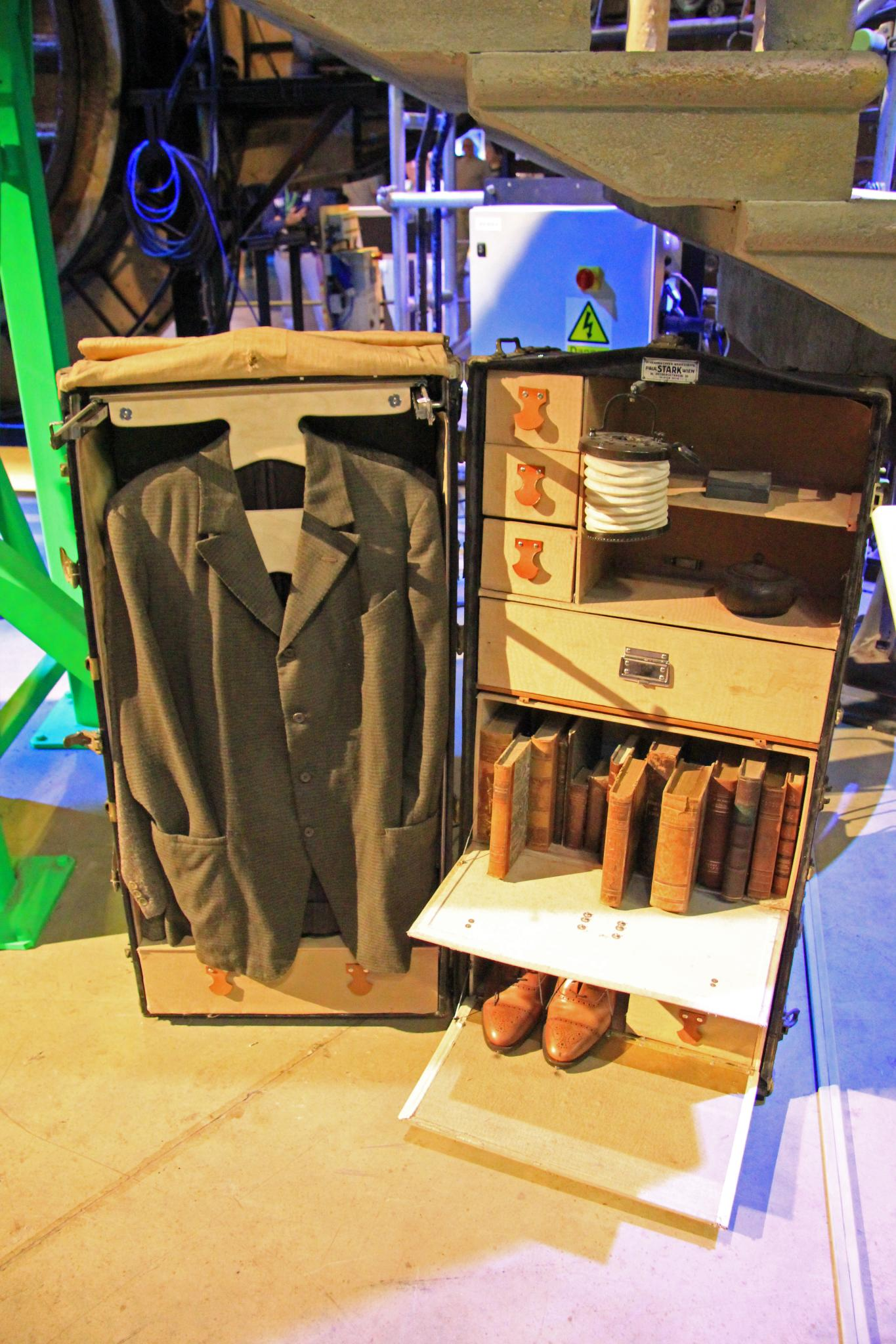 Warner Bros. Studio Tour London: The Making of Harry Potter.